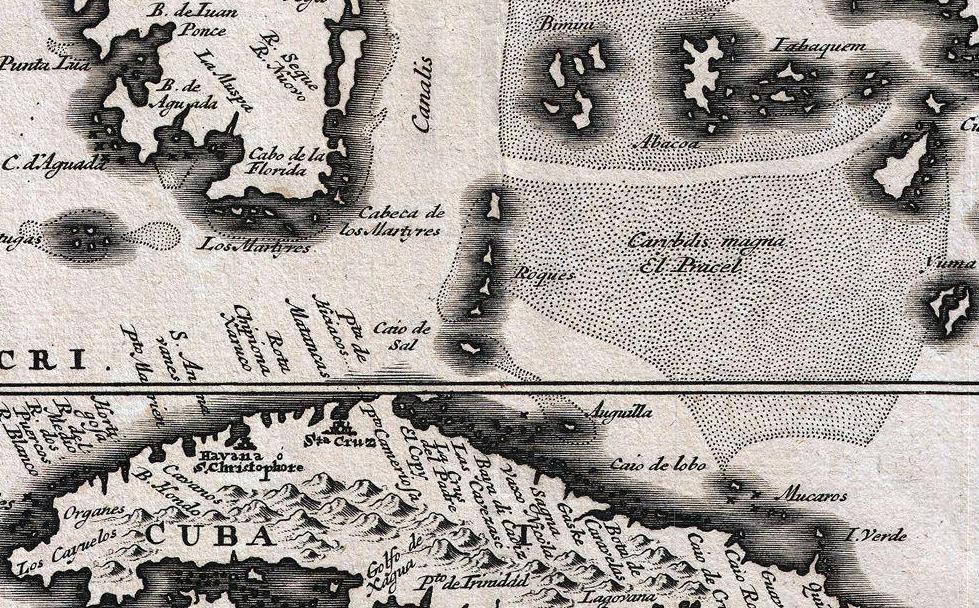 Los Roques in a 1696 Danckerts Map of Florida, the West Indies, and the Caribbean. Map Section